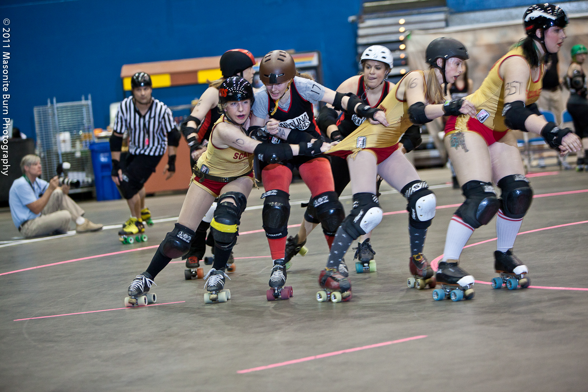 Ms. Anthrope the Mordant from the Carolina Rollergirls attempts to break through an Angel City Derby Girls wall at the 2011 Dust Devil tournament